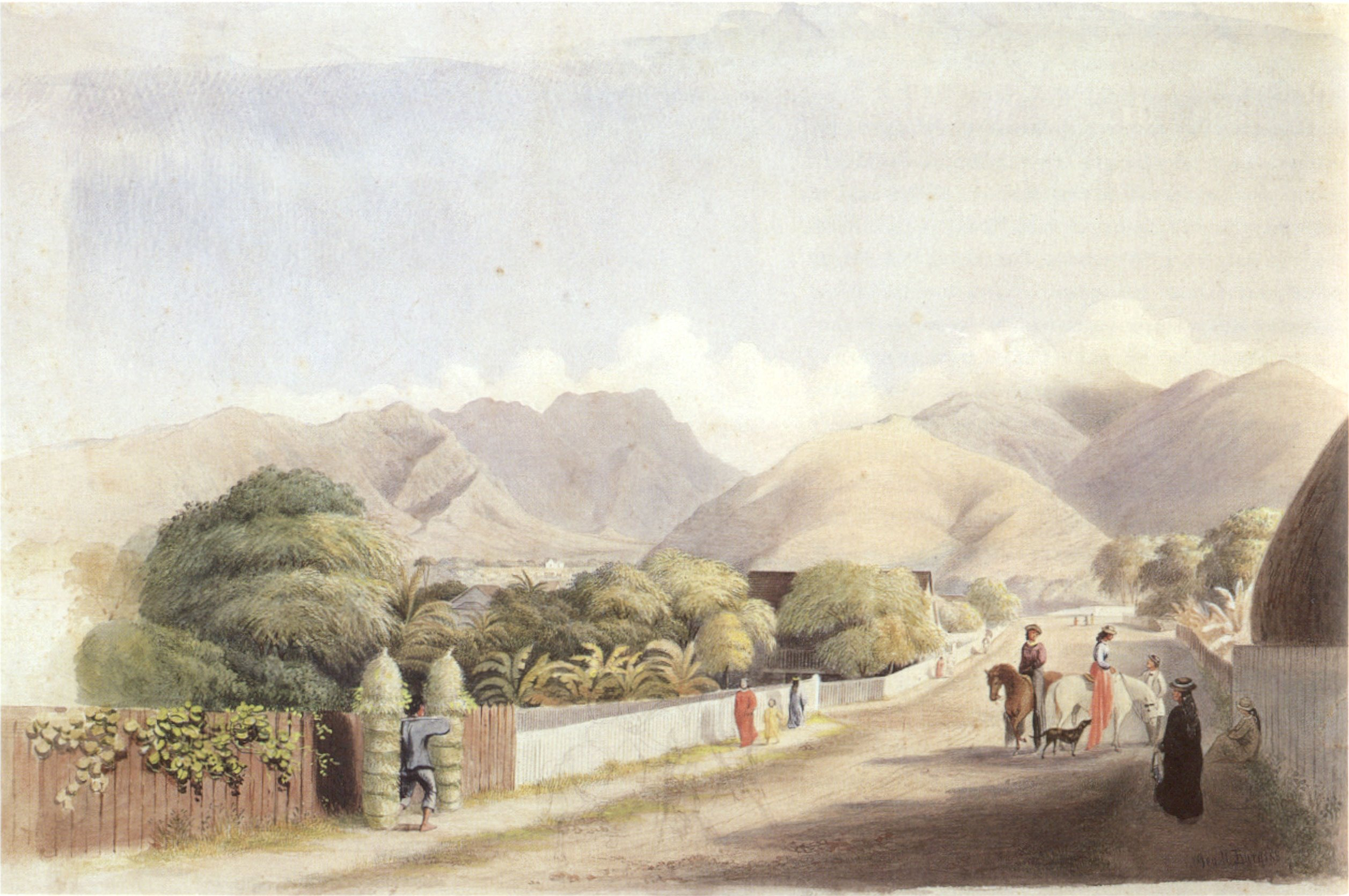 The area above Beretania Street was a quiet, residential area with white picket fences and feather algeroba trees (also known as keawe or mesquite). Mauna Ala, the Royal Mausoleum, which was completed in 1864, appears in the background in Nuuanu Valley.